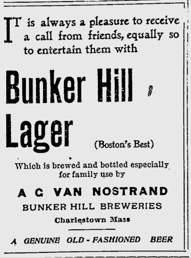 Boston Evening Transcript - Oct 24, 1896 p 16